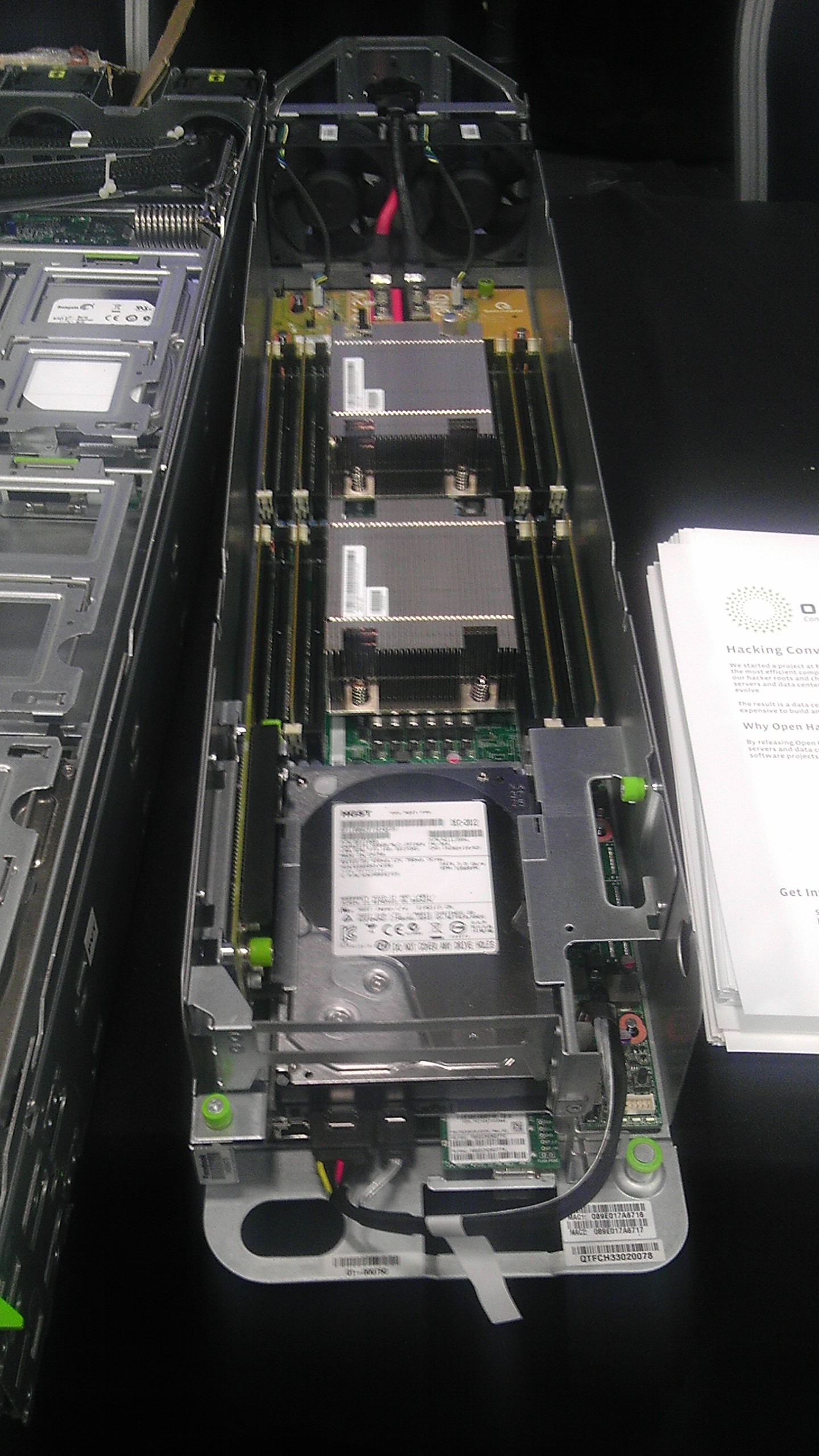 Open Compute Server Front (Intel CPU?)